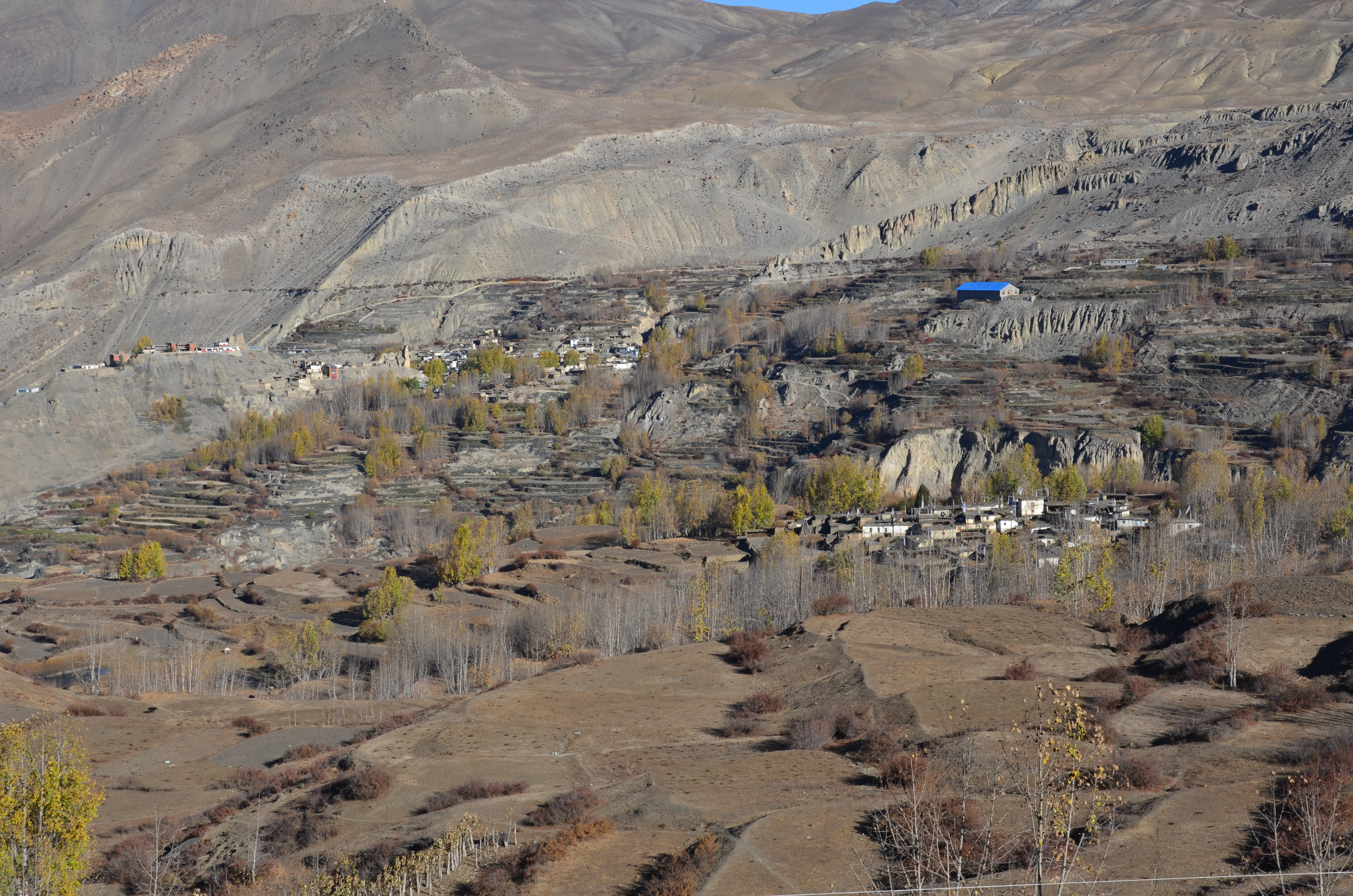 View From Rupakot Mustang